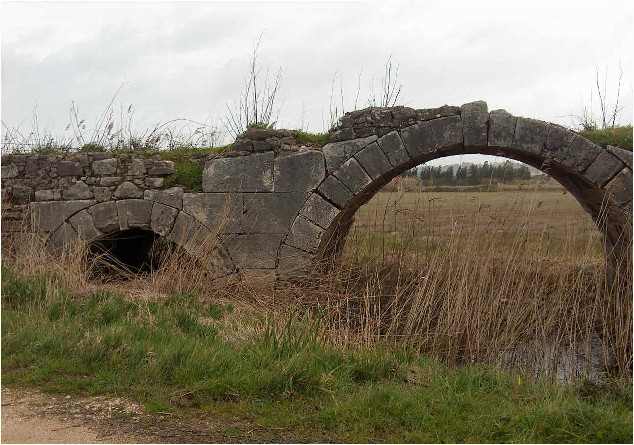 Ponte Romana sobre o Rio Pranto